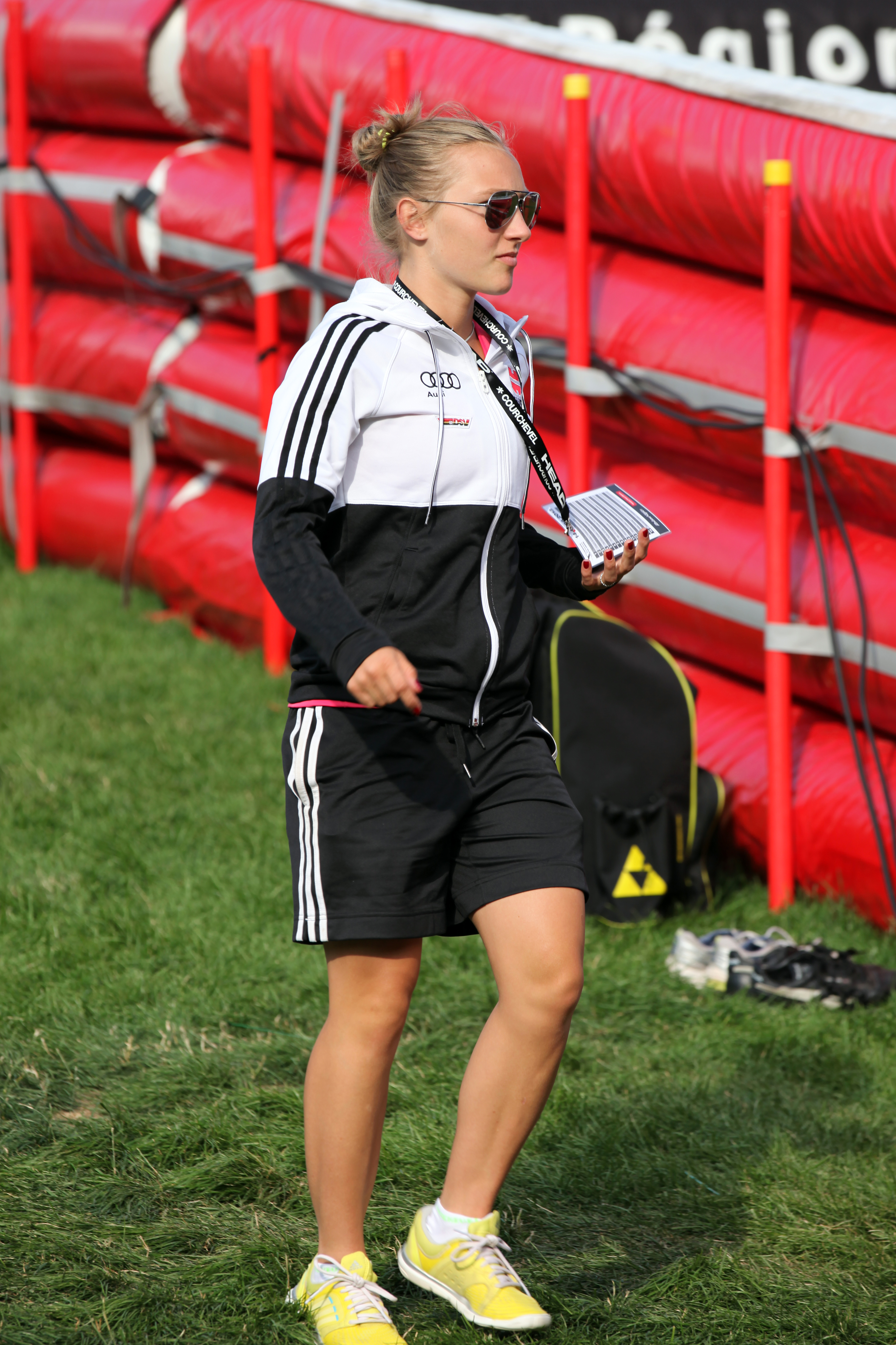 Katharina Althaus at the Summer Grand Prix (team) ski jumping event in Courchevel 2013.